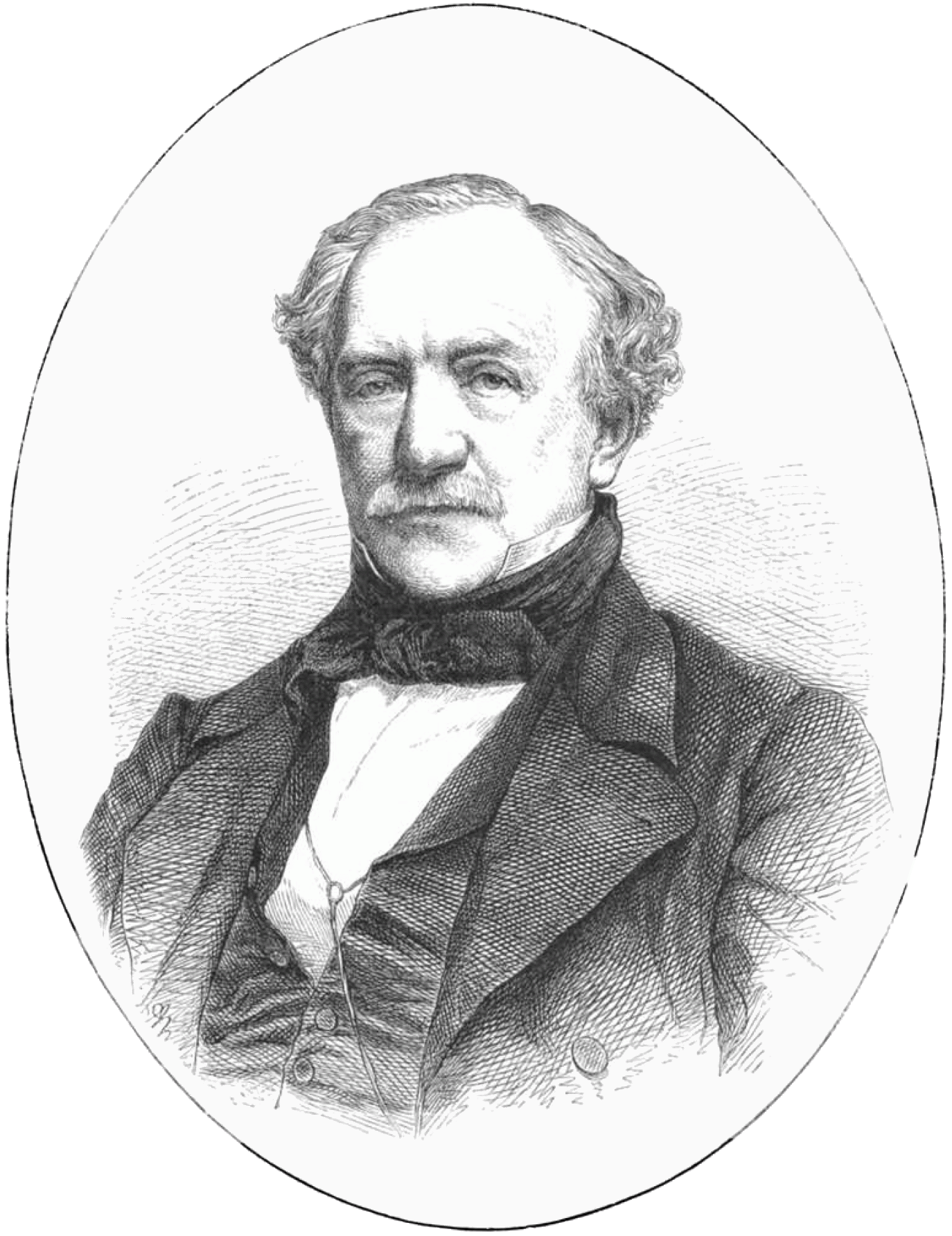 Otto Wigand (1795–1870), German bookseller, publisher and politician